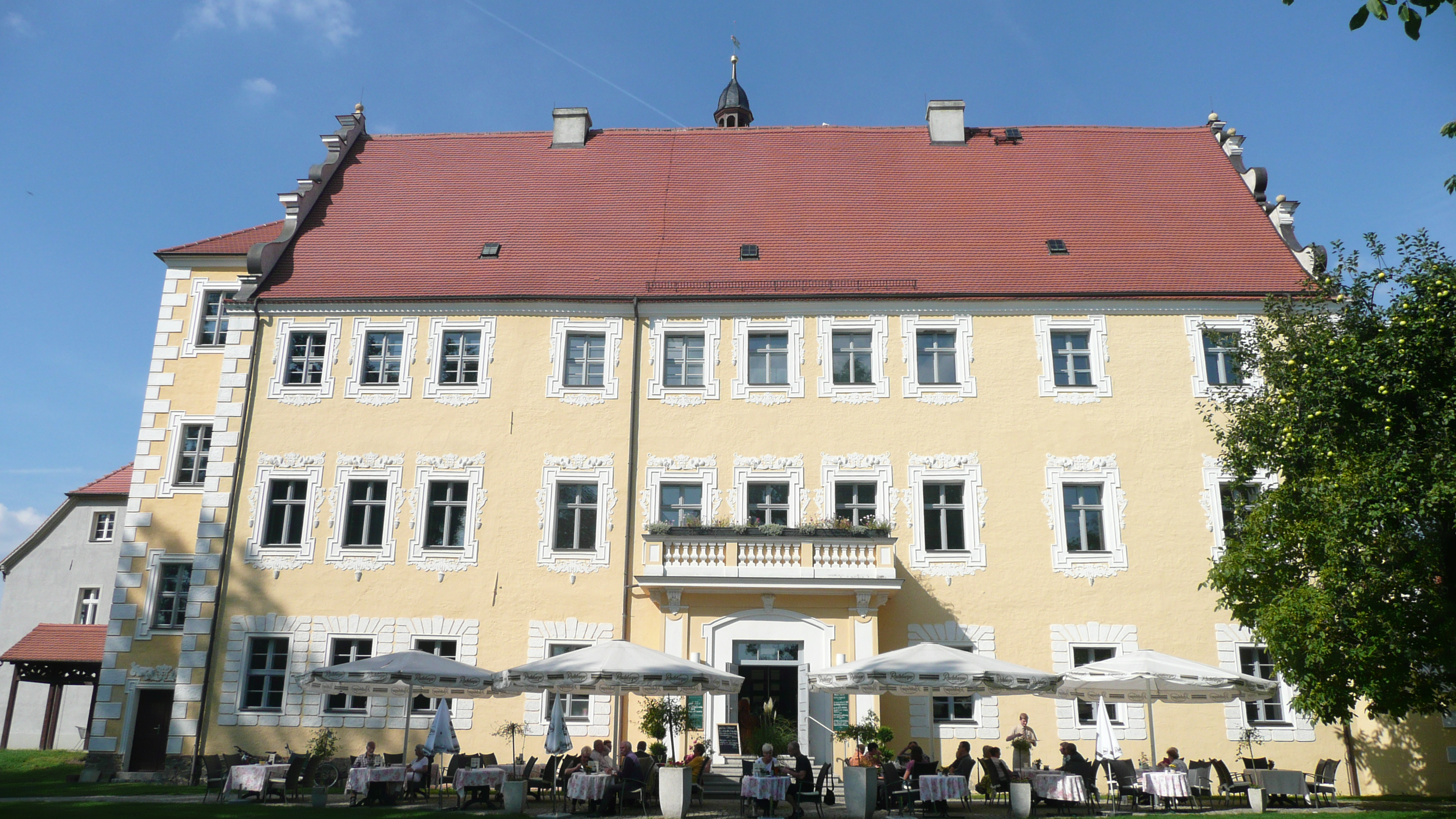 Castle Luebben in Germany